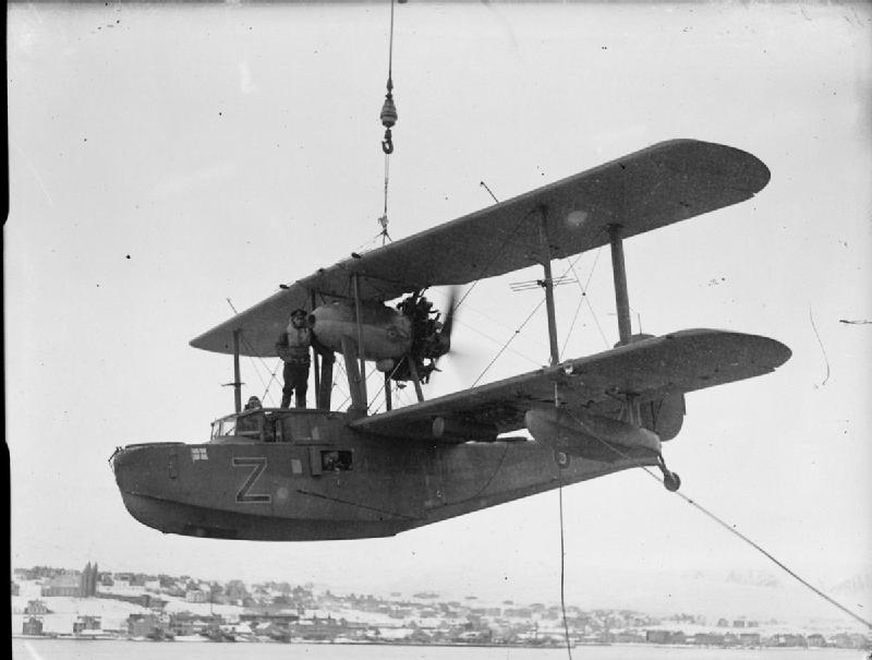 The Royal Navy during the Second World War Hoisting a Supermarine Walrus amphibious aircraft aboard the battleship KING GEORGE V after it had completed a patrol over Northern waters during convoy duty.